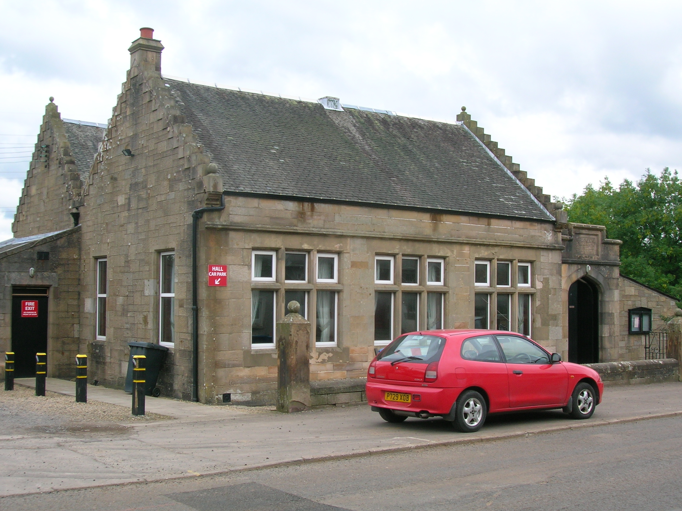 Gateside Memorial Hall, North Ayrshire, Scotland.